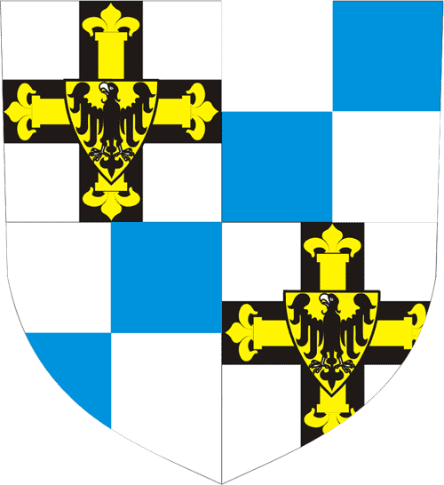 Teutonic Order - Coat of Arms of the Grandmaster Konrad and Ulrich von Jungingen